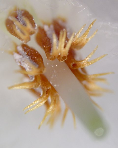 Scientific Name: Gaultheria procumbens L. Common Name: Wintergreen Certainty: positive (notes) Location: Central Appalachians; George Washington NF; Shenandoah Mt Date: 20060730 Dissected flower, at 30x. Shows wacky anthers pretty well. (It's very hard to get good depth-of-field without multiple exposures and a great deal of patience in Photoshop.)